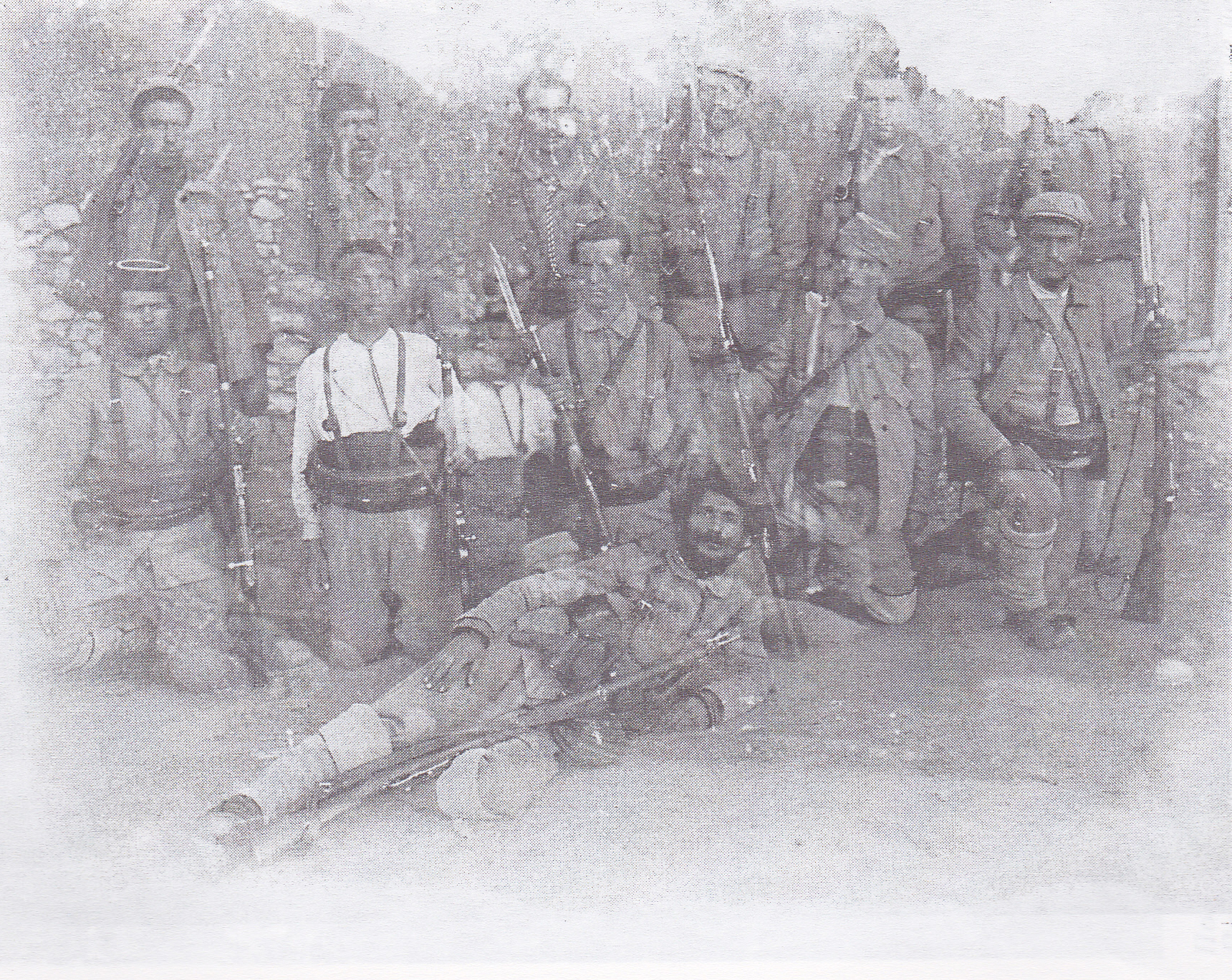 revolutionaries from Bulgaria, picture taken in Kosinets